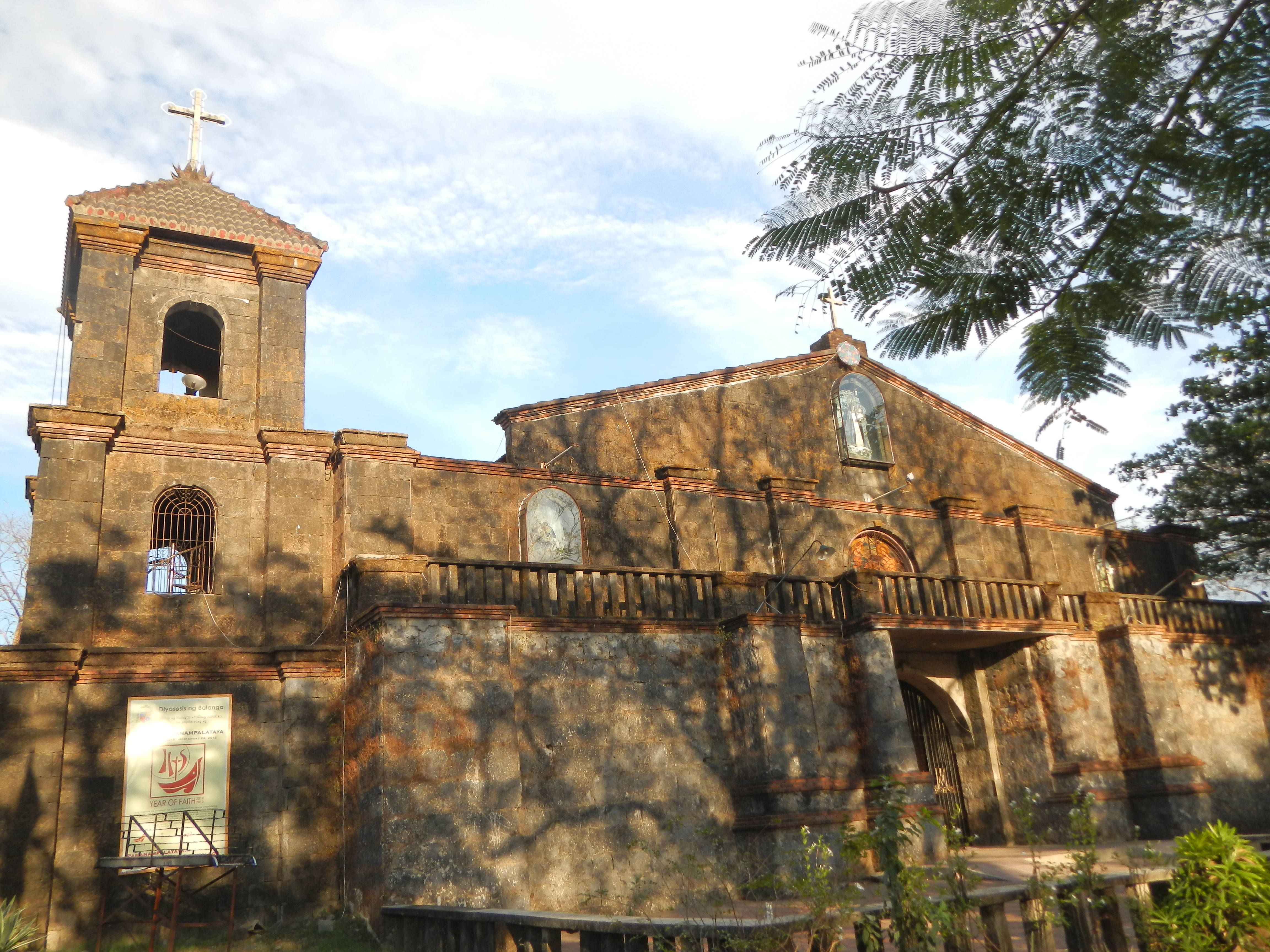 1607 Our Lady Of The Pillar Parish Church[1][2]Coordinates: 14°40'43"N 120°15'57"E Parish Priest, Fr. Gerardo "Gerry" Jorge,[3]Parish of Our Lady of the PillarAddress: Morong 2108 Bataan, Philippines Pop.: 19,161Cath.: 16,664 Titular: Our Lady of the Pillar, February 2Parish Priest: Father Fernando Loreto[4][5]Vicariate of Our Lady of the Pillar[6]V. The Vicariate of Mary, Mother of the Church[7]Roman Catholic Diocese of Balanga, Titular: Our Lady of the Pillar, Feb. 2 Former Parish Priests: Rev. Fr. Carmelino E. Alvendia, Father Fernando Loreto. Morong Parish Church was founded in 1607 under the Recolletts, when it became independent of Mariveles Parish. The Church was solemnly blessed on October 12, 2009. Morong, Bataan[8][9][10]